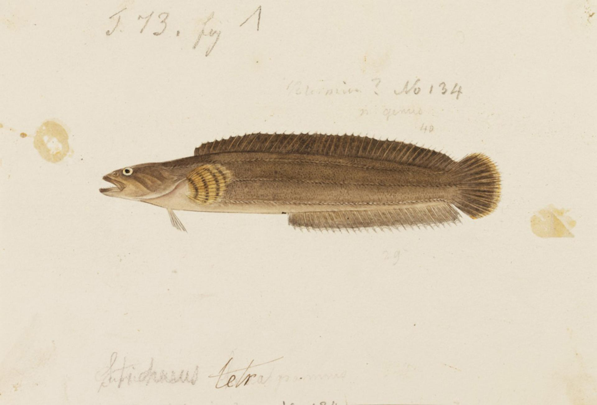 Emogrammus hexagrammus (Temminck and Schlegel)